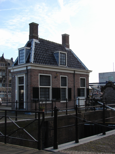 Zaandam Sluis